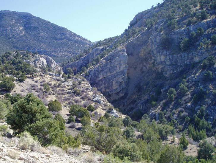 South Egan Range Wilderness in eastern Nevada, USA.